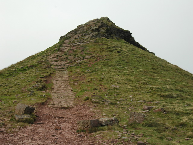 Corn Du approached from the South The view you get of Corn Du as you approach it from Bwlch Duwynt